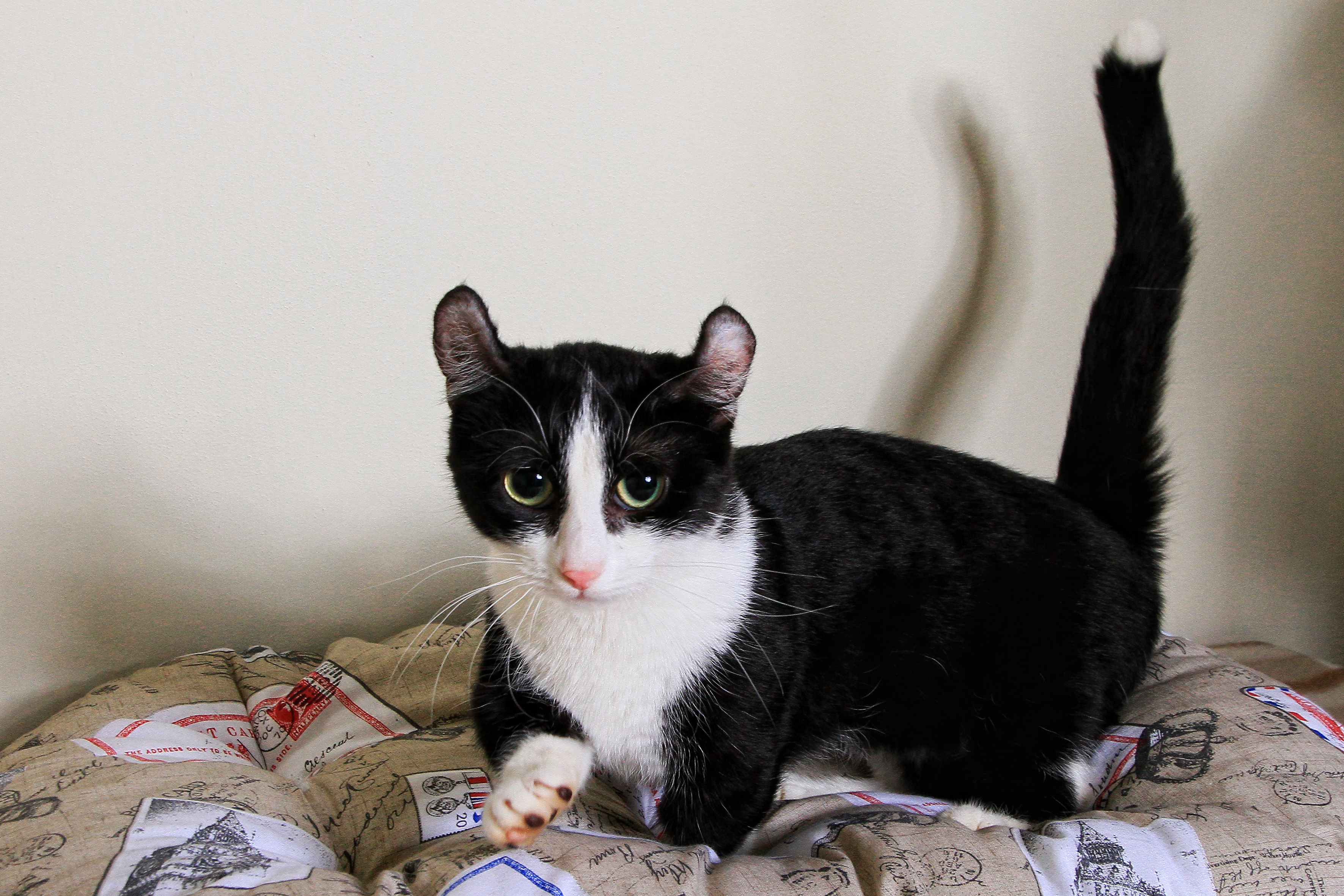 Девочка породы кинкалоу имя ABBSKATZ TINKERBELLA ( окрас чёрный с белым ) привезена из Англии. murmulet.ru